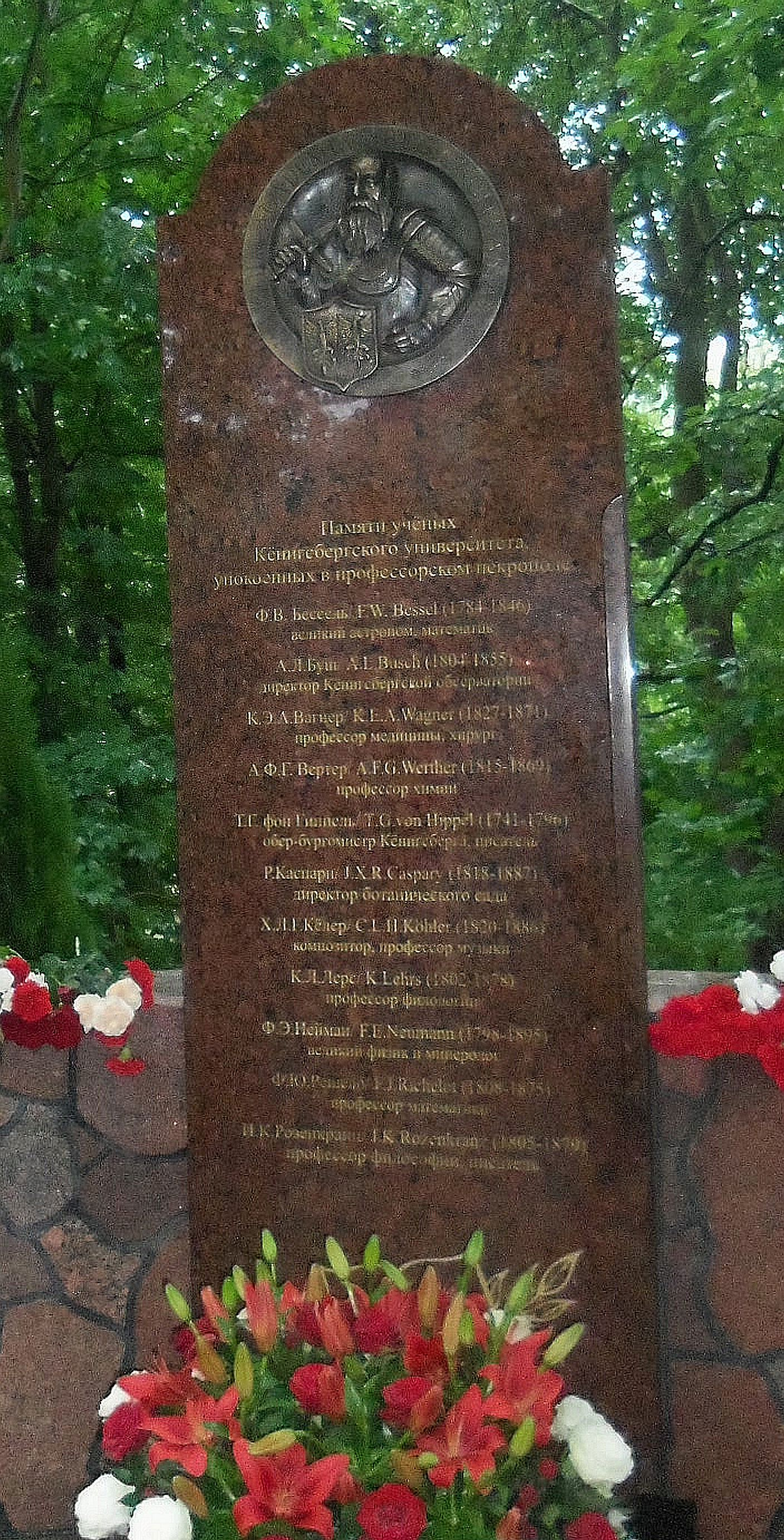 The picture shows the comemorative plaque from 2014, situated in Kaliningrad, former Koenigsberg, on the cemetery of the old Neuroßgaerter Church Koenigsberg